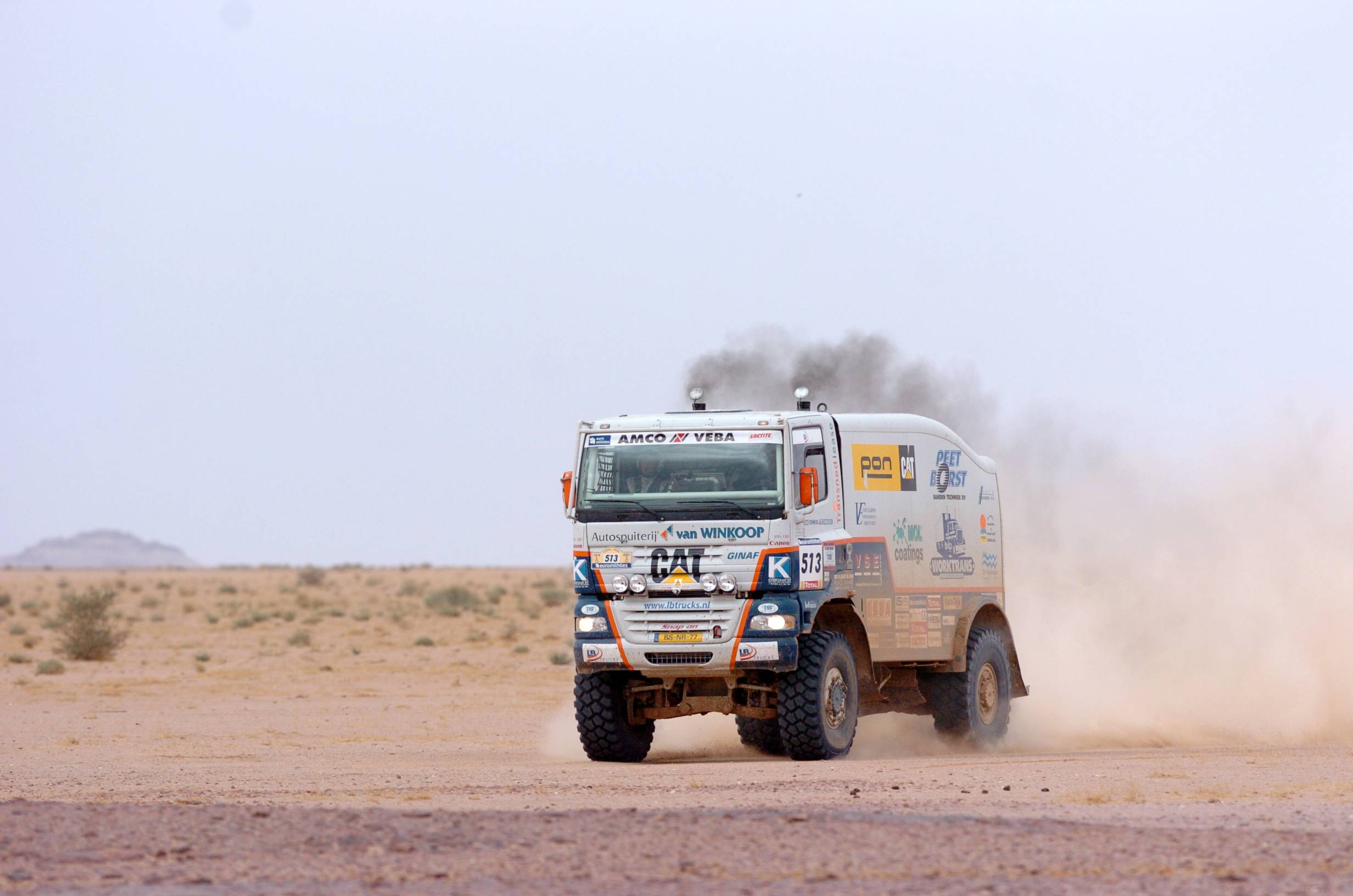 Ginaf Rally Power in action in Le Dakar 2007